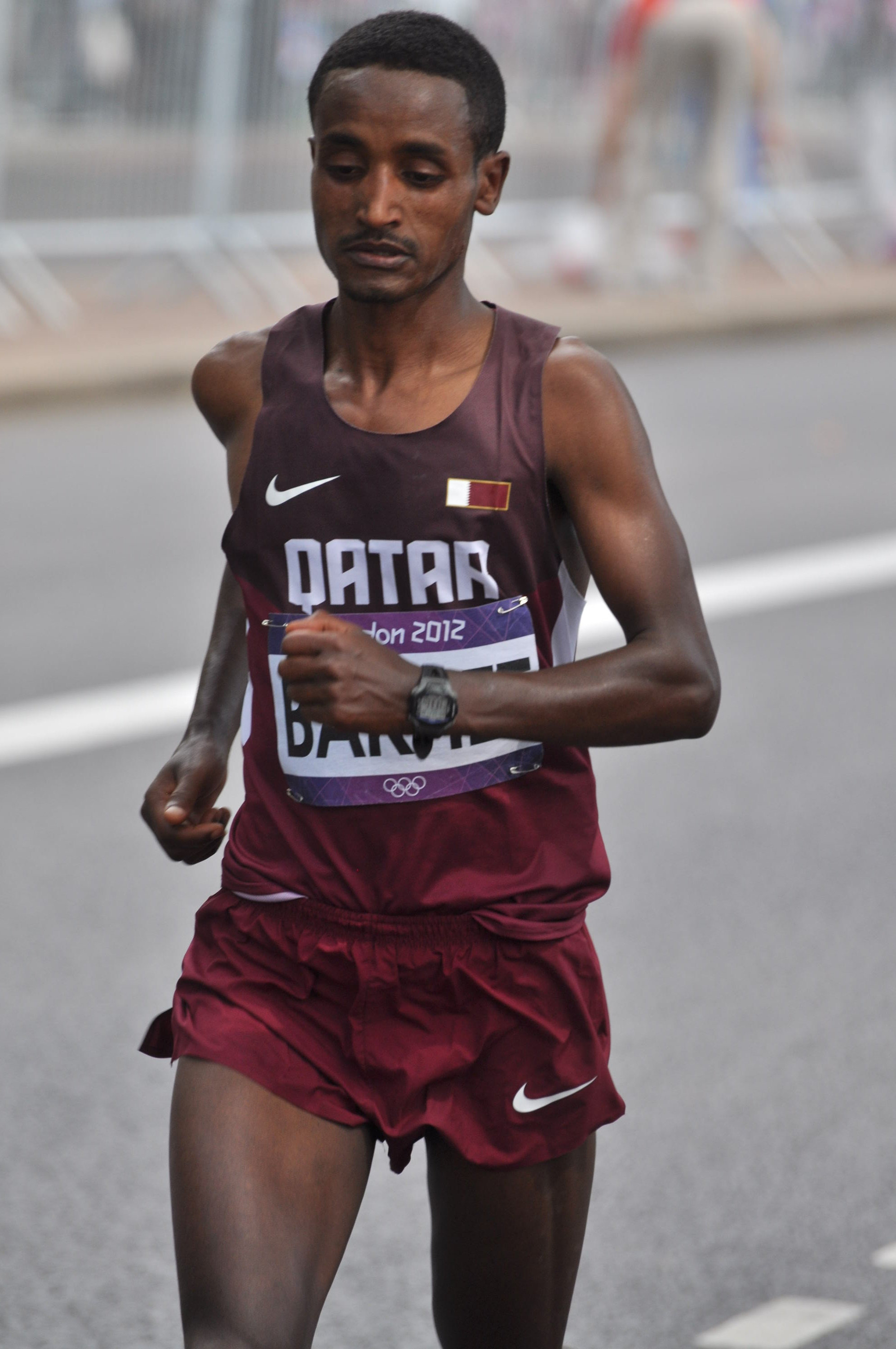 The men's marathon of the 2012 Summer Olympics in London, UK took place on an Olympic marathon street course on Sunday 12th August 2012 at 11:00. This was the final day of the 30th Olympic Games. The London 2012 marathon course is the standard Olympic distance of 26 miles 385 yards and consists of one short lap of approx 2.2 miles followed by three longer laps of 8 miles. The course began on The Mall and travelled past several of the most famous London landmarks. The start/finish line was near the Victoria Memorial. These photographs were taken at the Victoria Embankment. This featured several times on the looped course. The approximate location from the photographs is shown in the Google StreetView Link below. Stephen Kiprotich won in 2 hours, 8 minutes, 1 second as he pulled away from the Kenyan duo of Abel Kirui and Wilson Kiprotich Kipsang. These photographs are unofficial photographs. They are not endorsed by London 2012. There are not commercially available. They are available for use under a Creative Commons License. Please link back to the photograph on my Flickr account if you use the image.